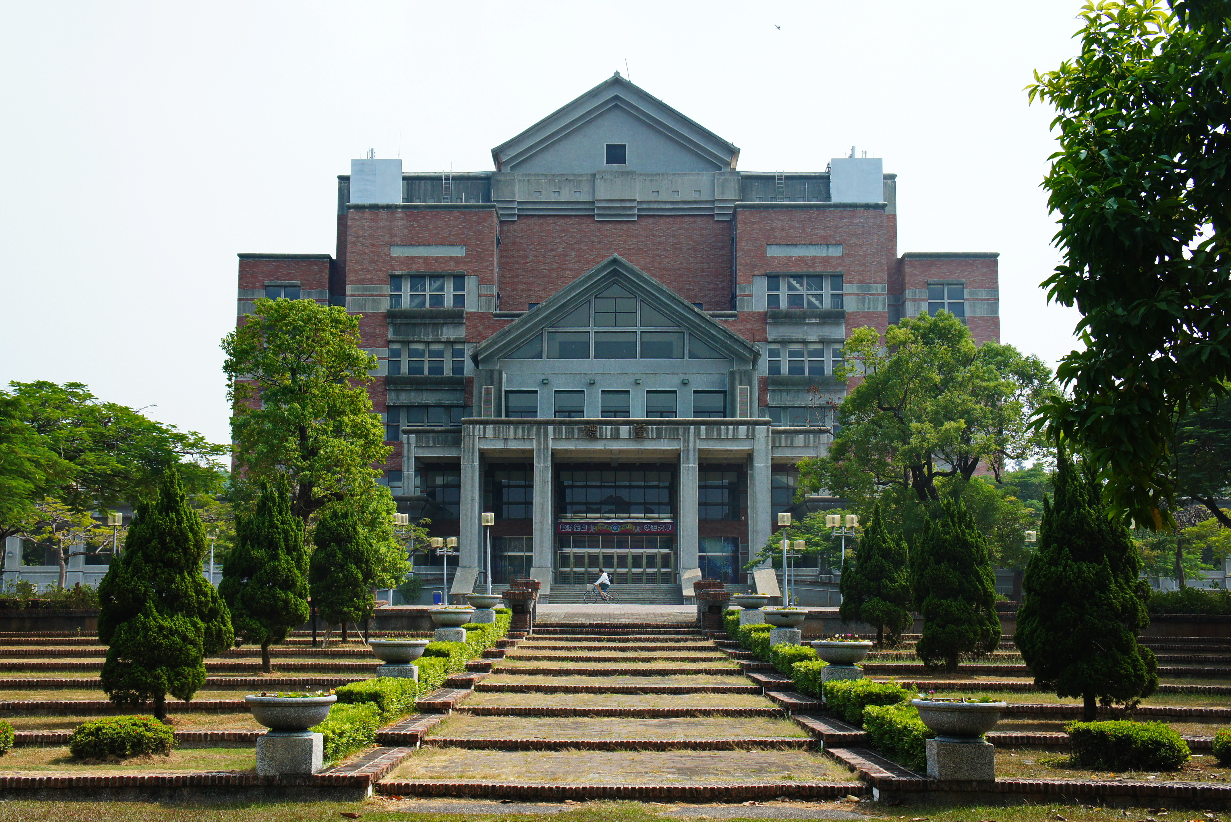 Auditorium, National Chung Cheng University, Taiwan.